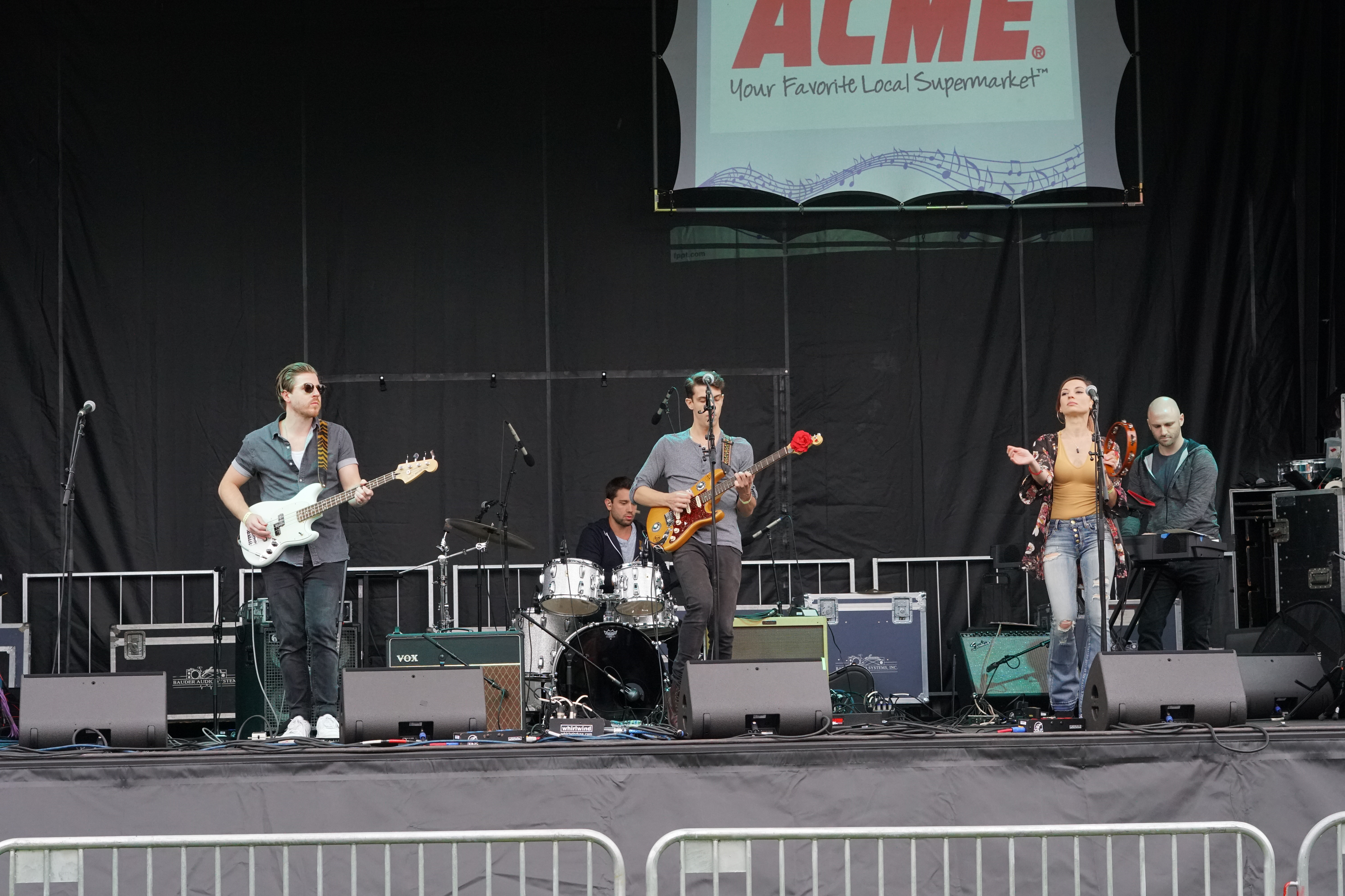 The Fleeting Ends performing at Haverford Music Festival in 2018 from left to right, Tim Fergusen, Andrew Leingang, Matt Vantine, Lauren Davish, Jim Ronca.